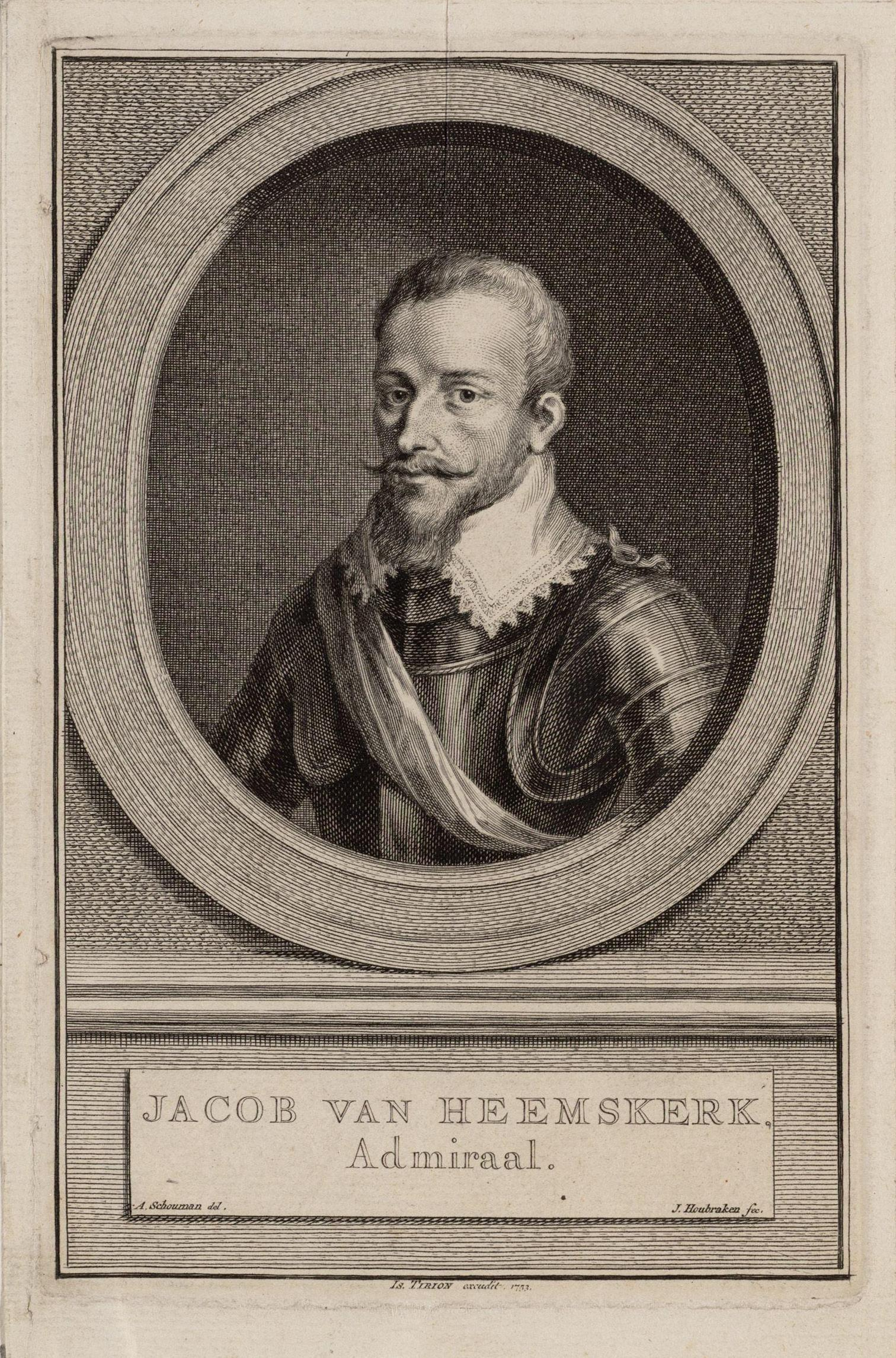 Text from source site: Jacob van Heemskerk (13-03-1567 / 25-04-1607). Admiral of Holland. Size: 170 x 111 mm. Source: Collection drawings and prints. Creators: J. Houbraken (engraver) and A. Schouman (drawing). File number: 010097008547